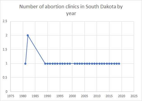 Number of abortion clinics in South Dakota by year. Data is from articles linked at